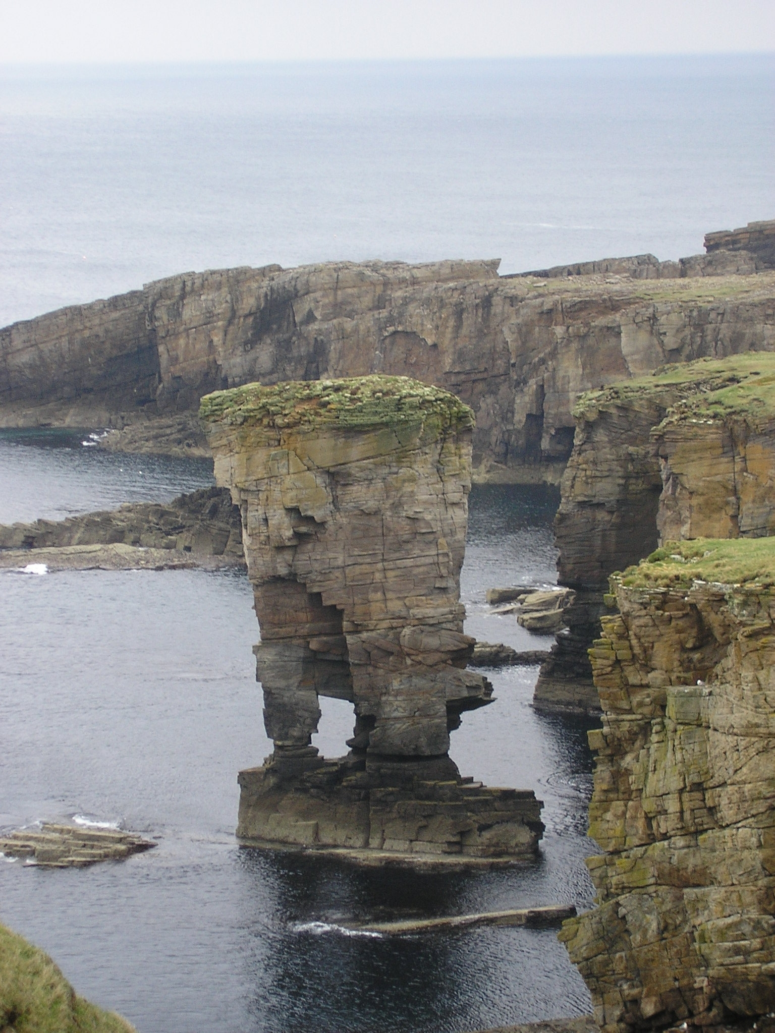 Dune cross-bedded aeolian Yesnaby Sandstone forming the seastack Yesnaby Castle, Yesnaby, Mainland, Orkney